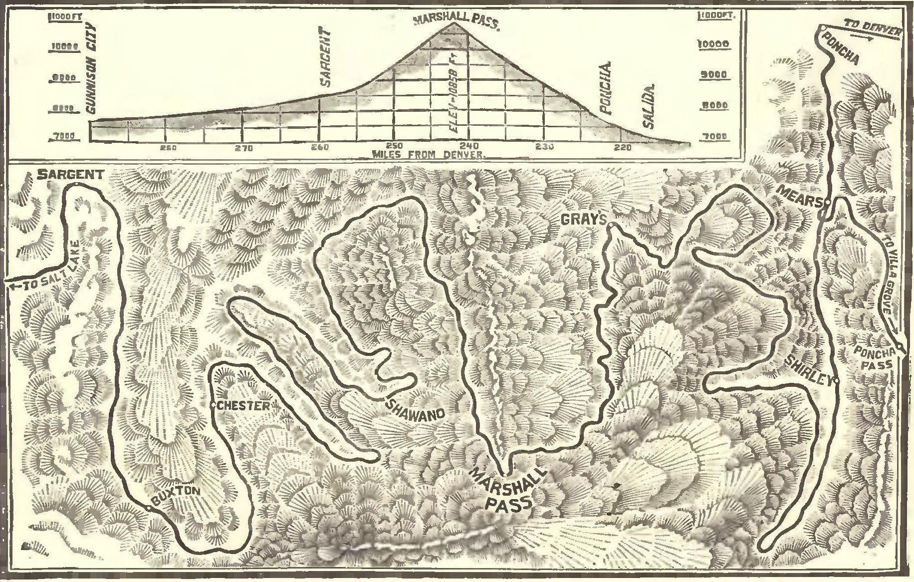 Scheme and gradient profile of railroad passing through Marshall Pass in Colorado. Published as an illustration to a travelogue "Vlakem do výše věčného sněhu" (By Train to the Heights of Eternal Snow).